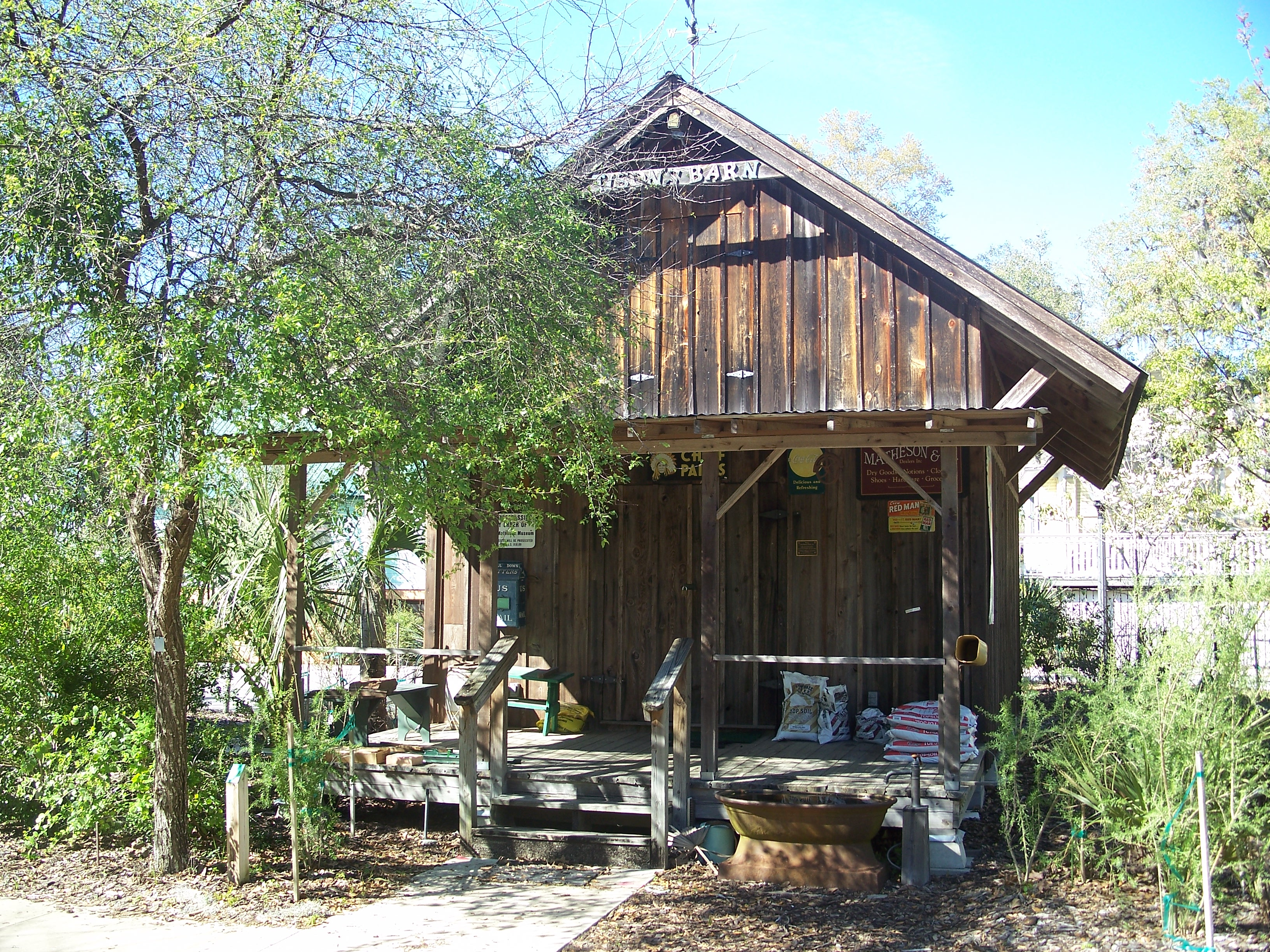 Tyson barn at the Matheson Museum in Gainesville, Florida